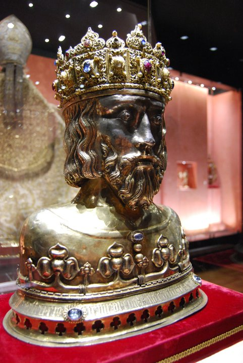 Sigismund's of Burgundy reliquary (Herma św. Zygmunta) from Diocesan Museum in Płock, Poland